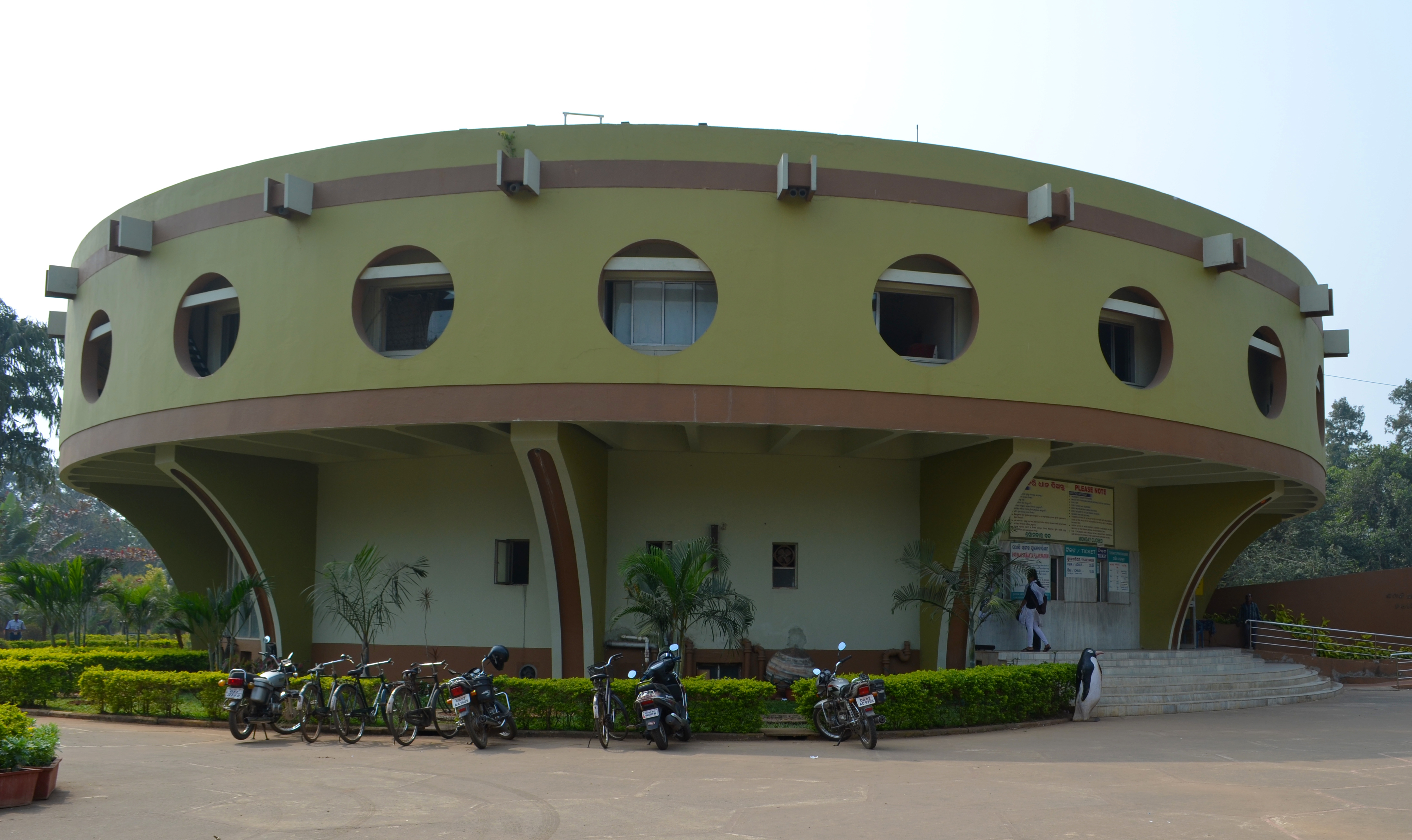 Pathani Samanta Planetarium building in Bhubaneswar, Odisha, India. ଓଡ଼ିଆ: ପଠାଣି ସାମନ୍ତ ପ୍ଲାନେଟୋରିଅମ, ଭୁବନେଶ୍ୱର ସୌଧ ।